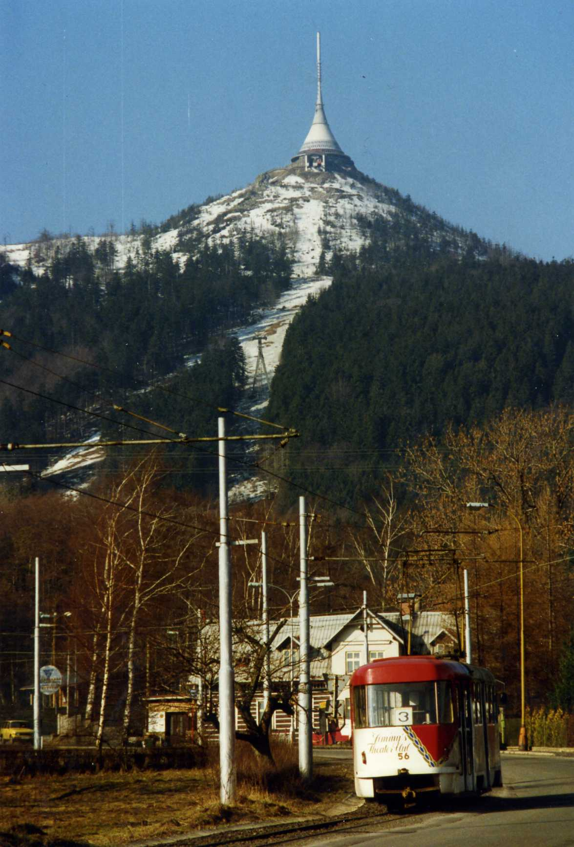 HORNÍ HANYCHOV terminus beneath the summit of Jested Between 1998 and 2005 trams did not serve this terminus owing to a change in gauge from 1000mm to 1435mm standard gauge.